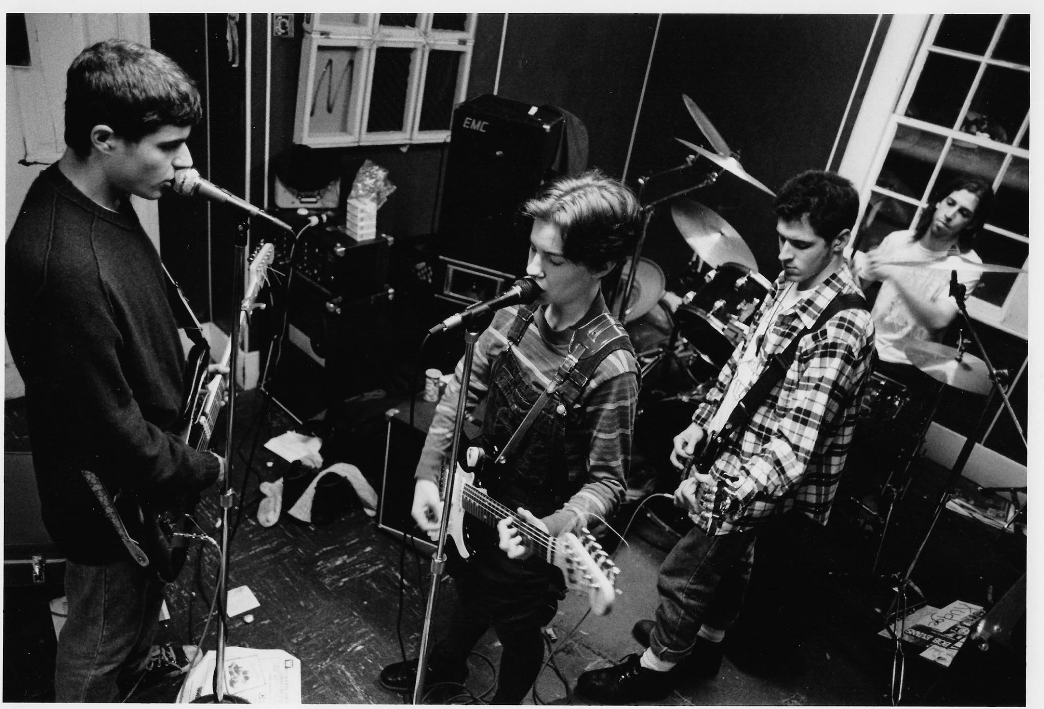 Boston indie rock band Swirlies playing in their practice space at MIT in 1992.